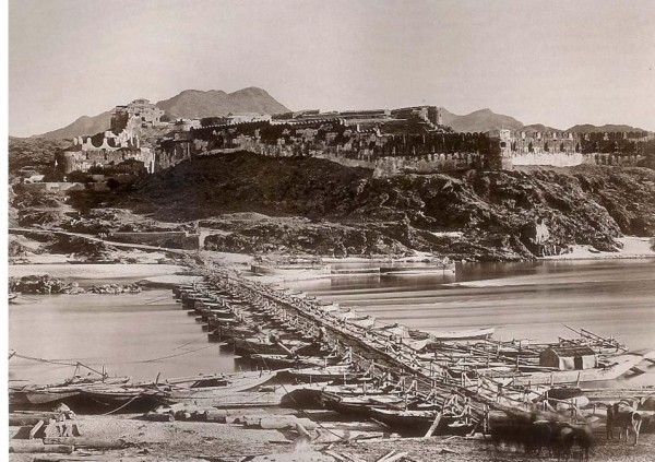 Bridge of boats over river Indus, Attock (Pakistan), 1861